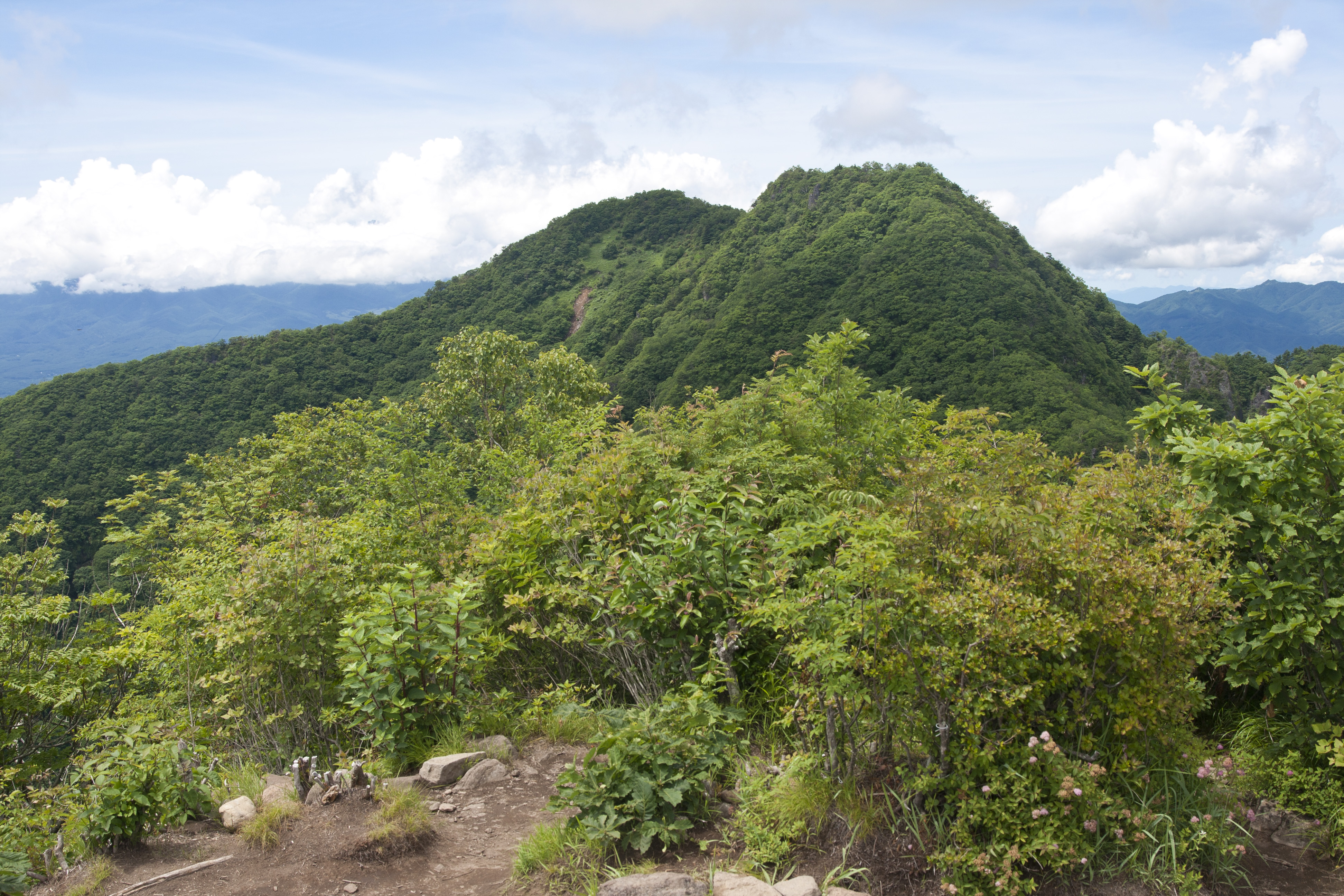 Mount Kane (Kane-ga-dake) in Yamanashi Prefecture, Japan